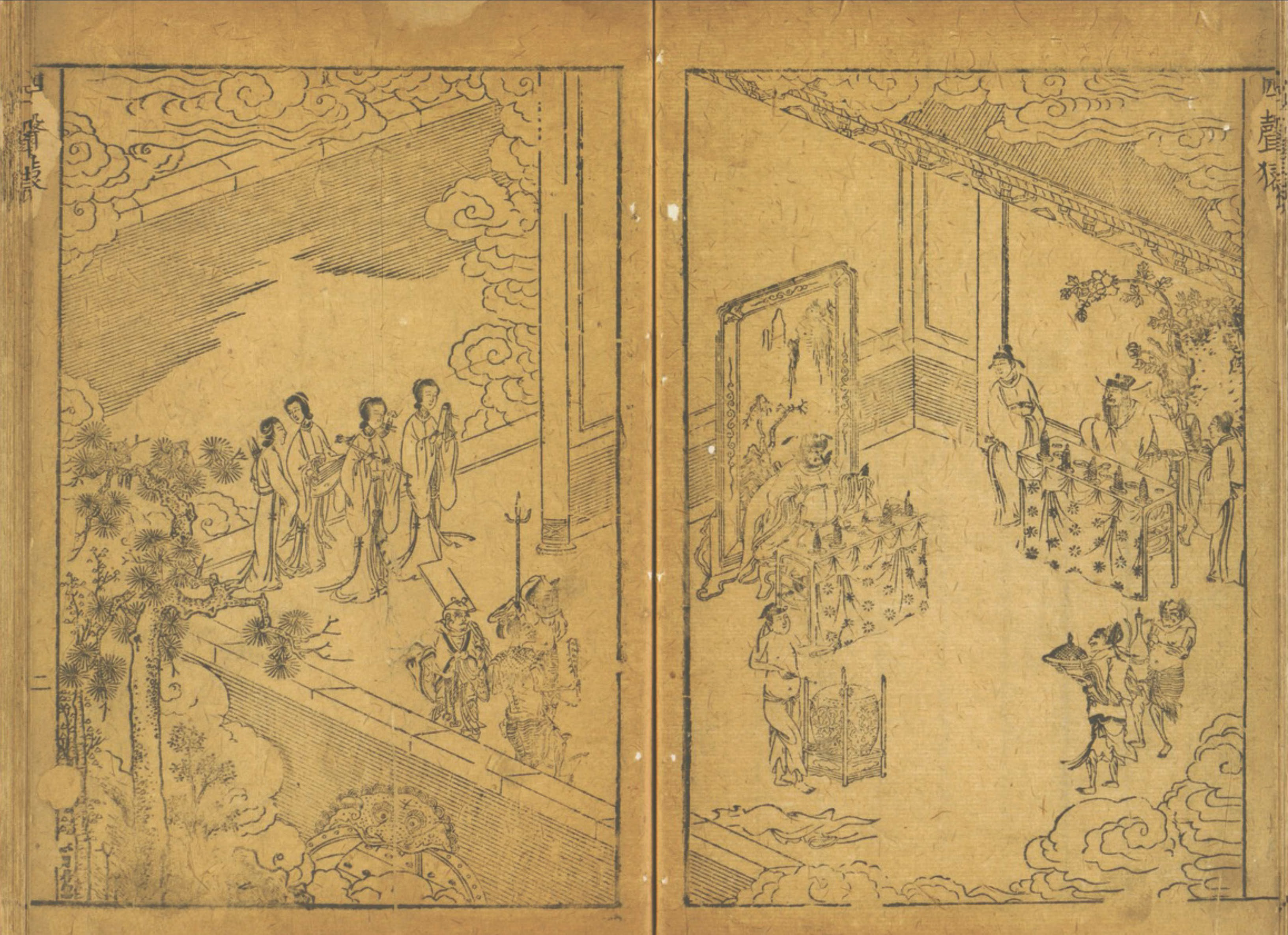 Kuang Gu Shi Yuyang San Nong (The history of the mad drummer of Yuyang) is one of the four plays in Xu Wei's Si Sheng Yuan (The four Cries of the Gibbon). This Woodstock illustration features Mi Heng and Cao Cao in their afterlives, as well as ghosts and fairies on the side. They are reenacting the famous scene from Romance of the Three Kingdoms in which Mi Heng beat the drum and humiliated Cao Cao. 中文（中国大陆）: 徐渭杂剧《狂鼓史渔阳三弄》（收于《四声猿》）的木板插图。该图描绘祢衡与曹操在阴间重演《三国演义》中击鼓骂曹一幕，旁有鬼吏和仙女。